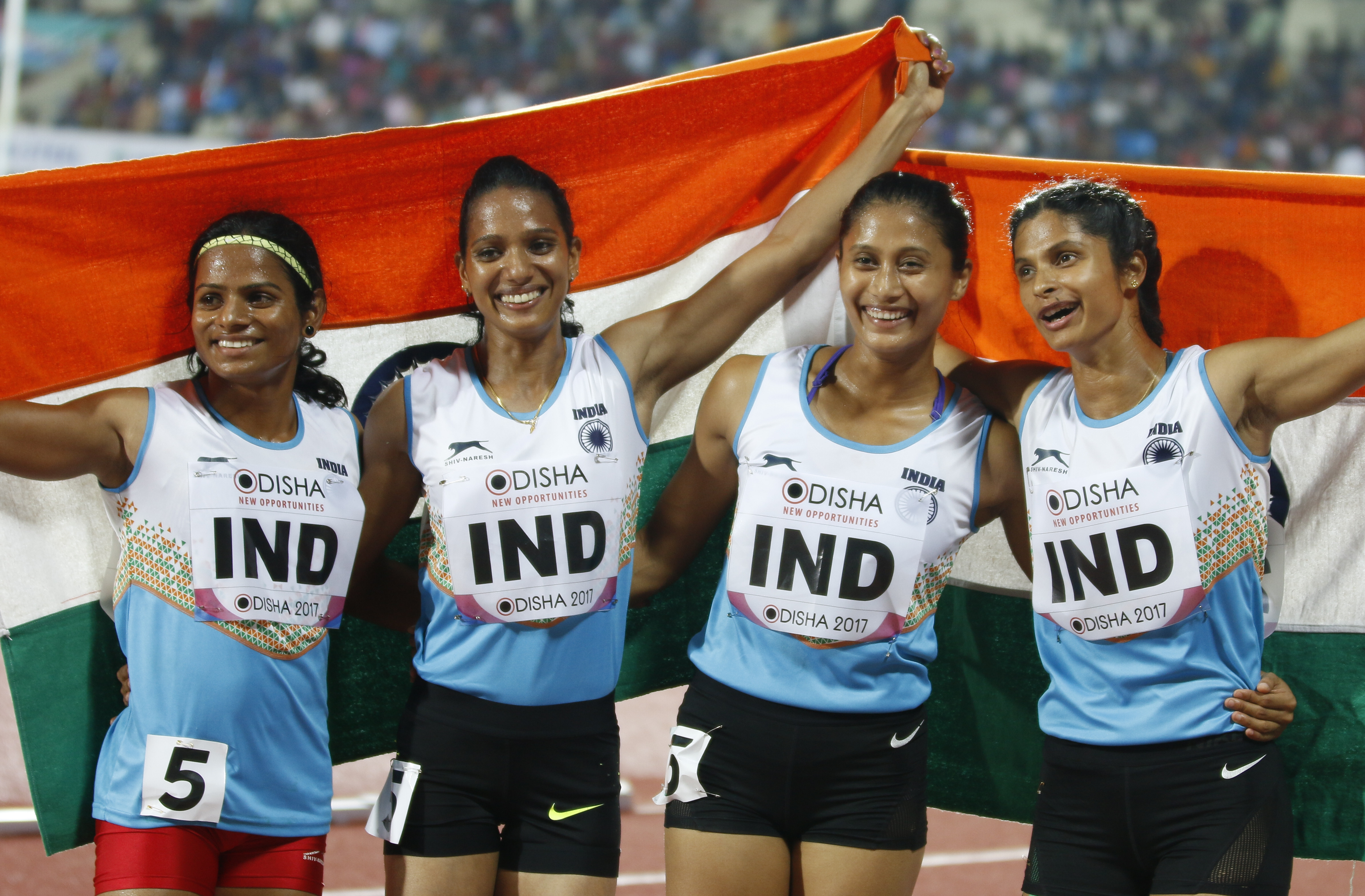 Dutee Chand, Srabani Nanda, Himashree Roy And Merlin Joseph(Bronze Medalist For India) from the 22nd Asian Games in Odisha. 2017 Asian Athletics Championships. 6 to 9 July 2017 at the Kalinga Stadium in Bhubaneswar